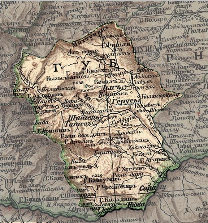 Uyezd of Zangezur in Yelizavetpol guberniya